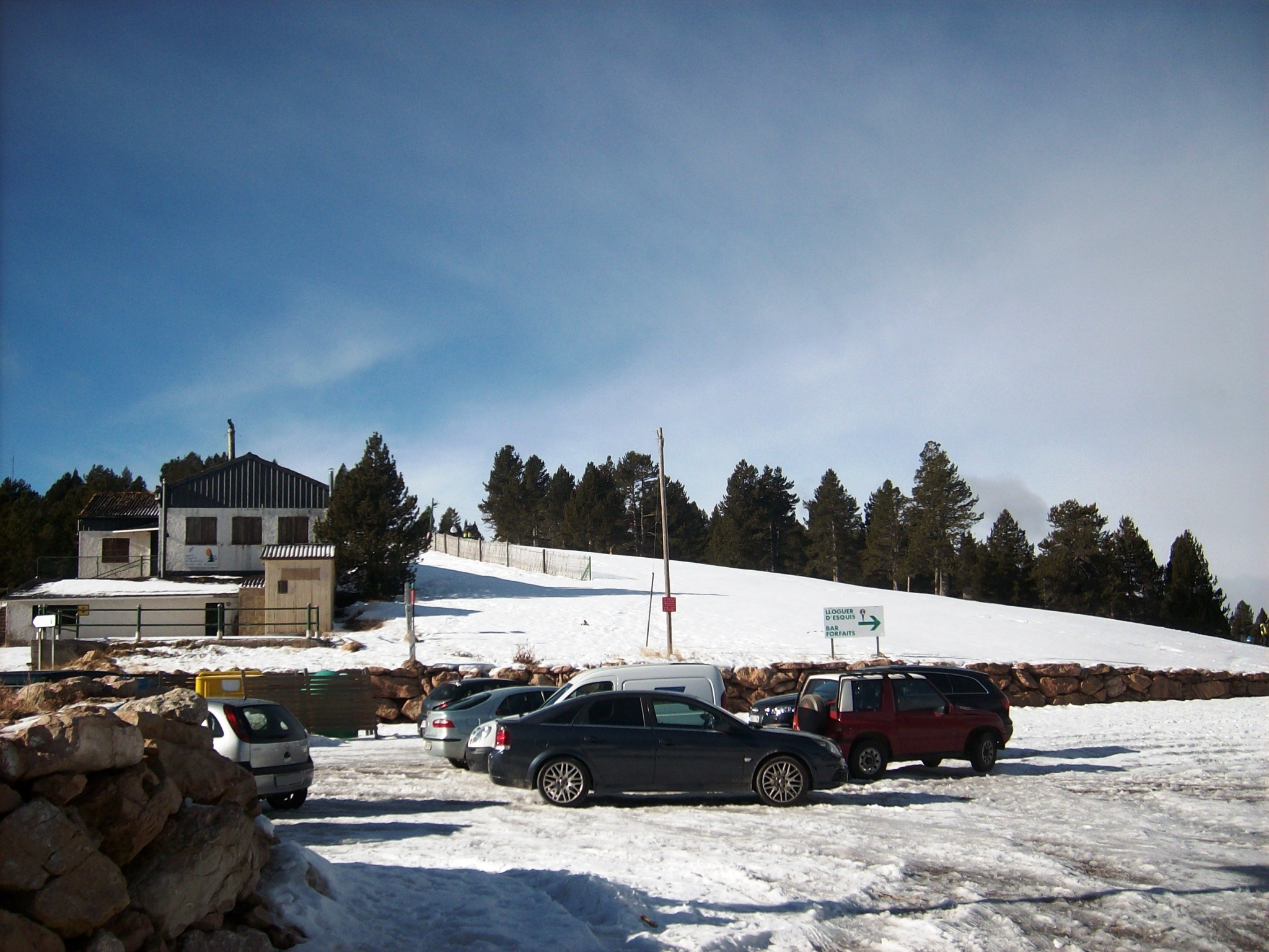 Rasos de Peguera in Catalonia (Europa)